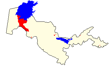 Map of Uzbekistan showing where Karakalpak is spoken